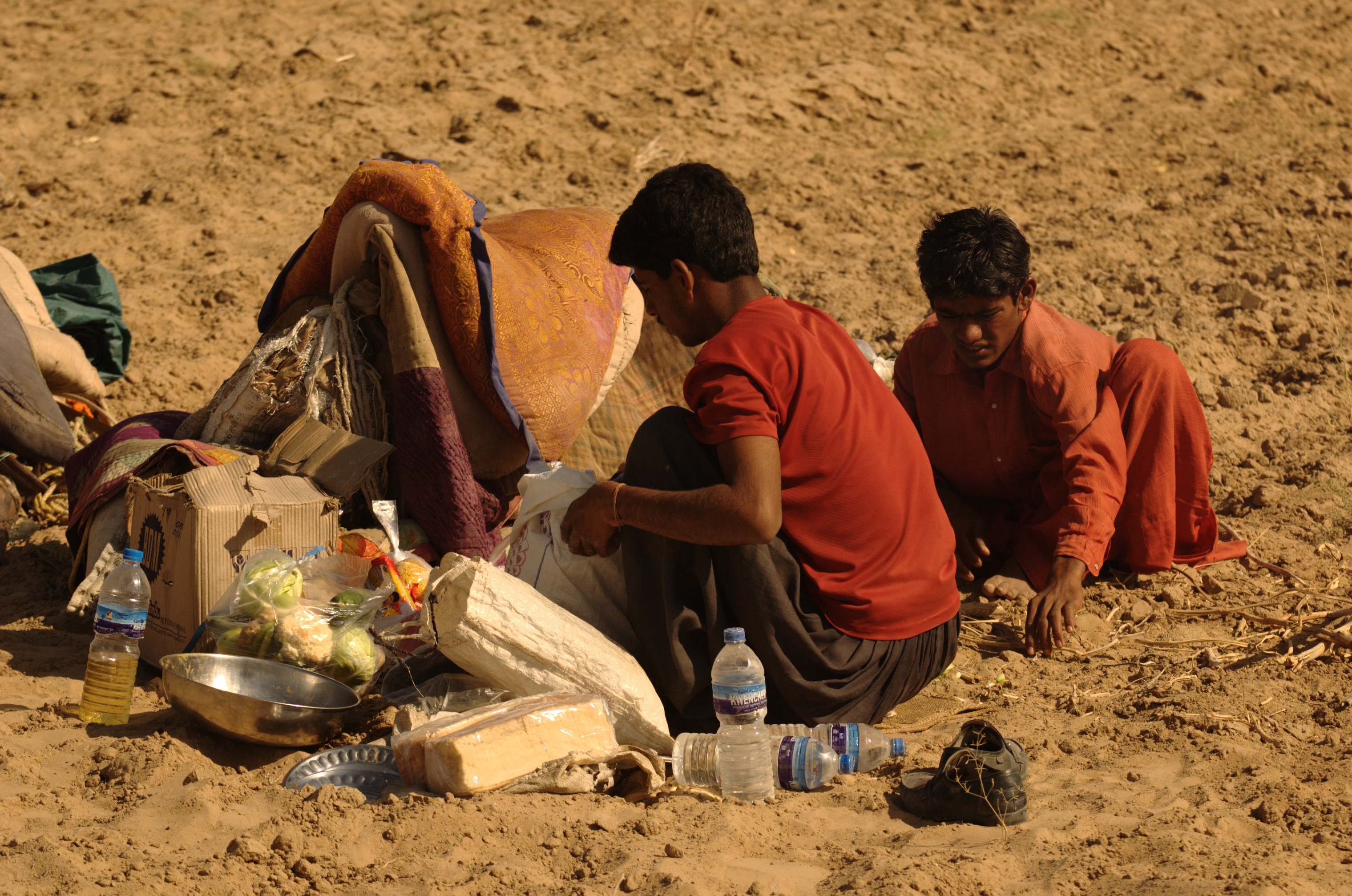 Nomads making lunch in Thar desert.